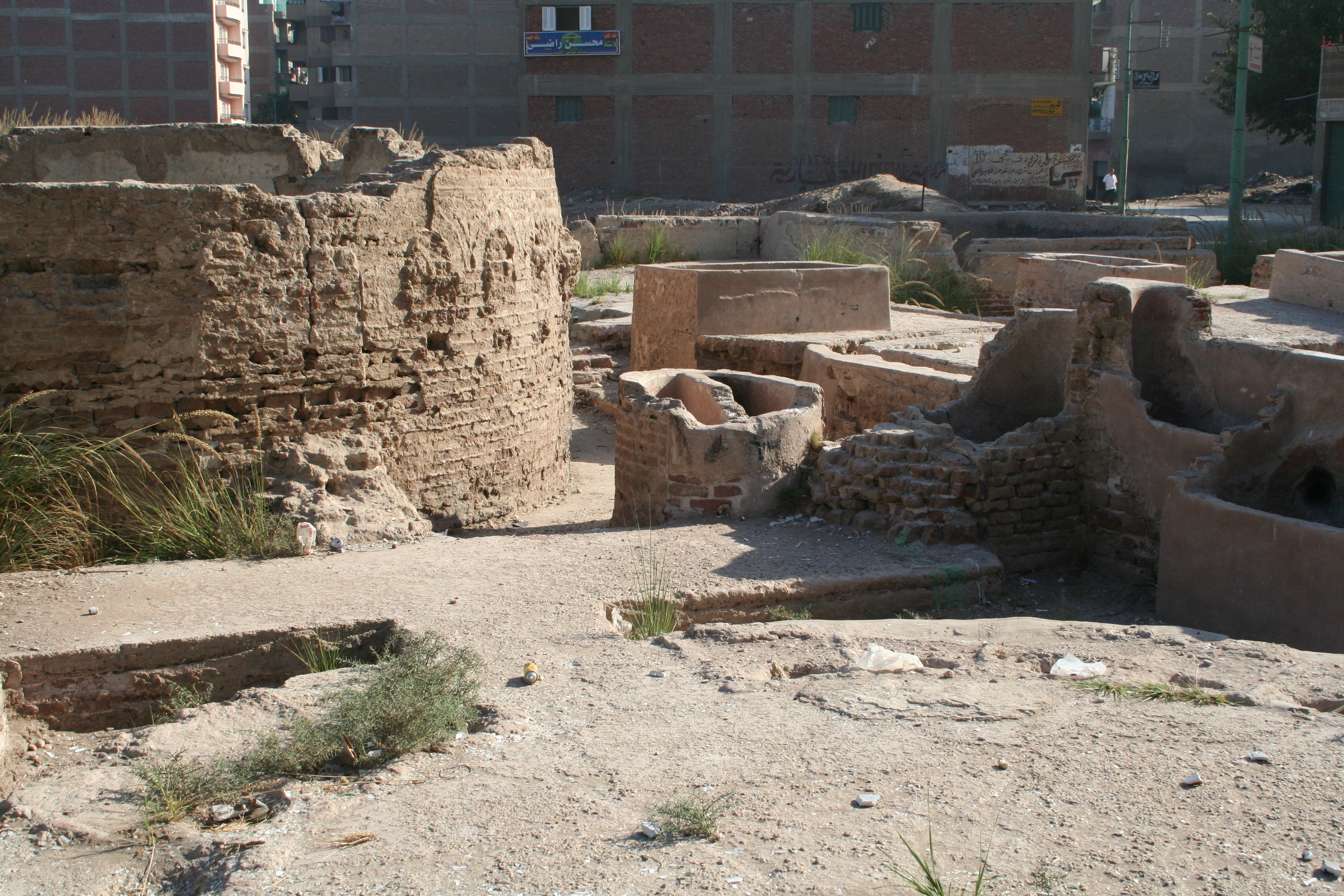 Roman settlement at Athribis (Tell Atrib)